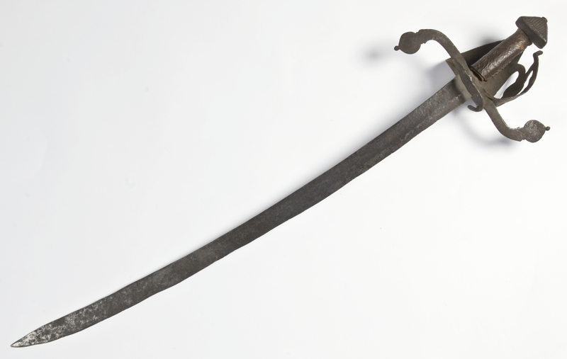 A German-style sabre or dusack (tessak), dated to the late 16th century (c. 1570-1590), kept in the Nordic Museum, Stockholm (NF.2010-0624).